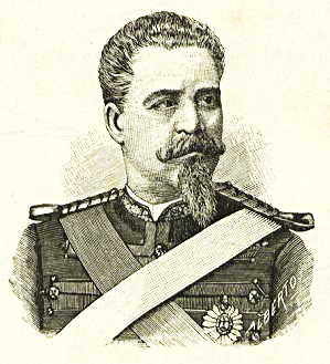 Luís Pimentel Pinto (1843-1913), Colonel in the Portuguese Army.